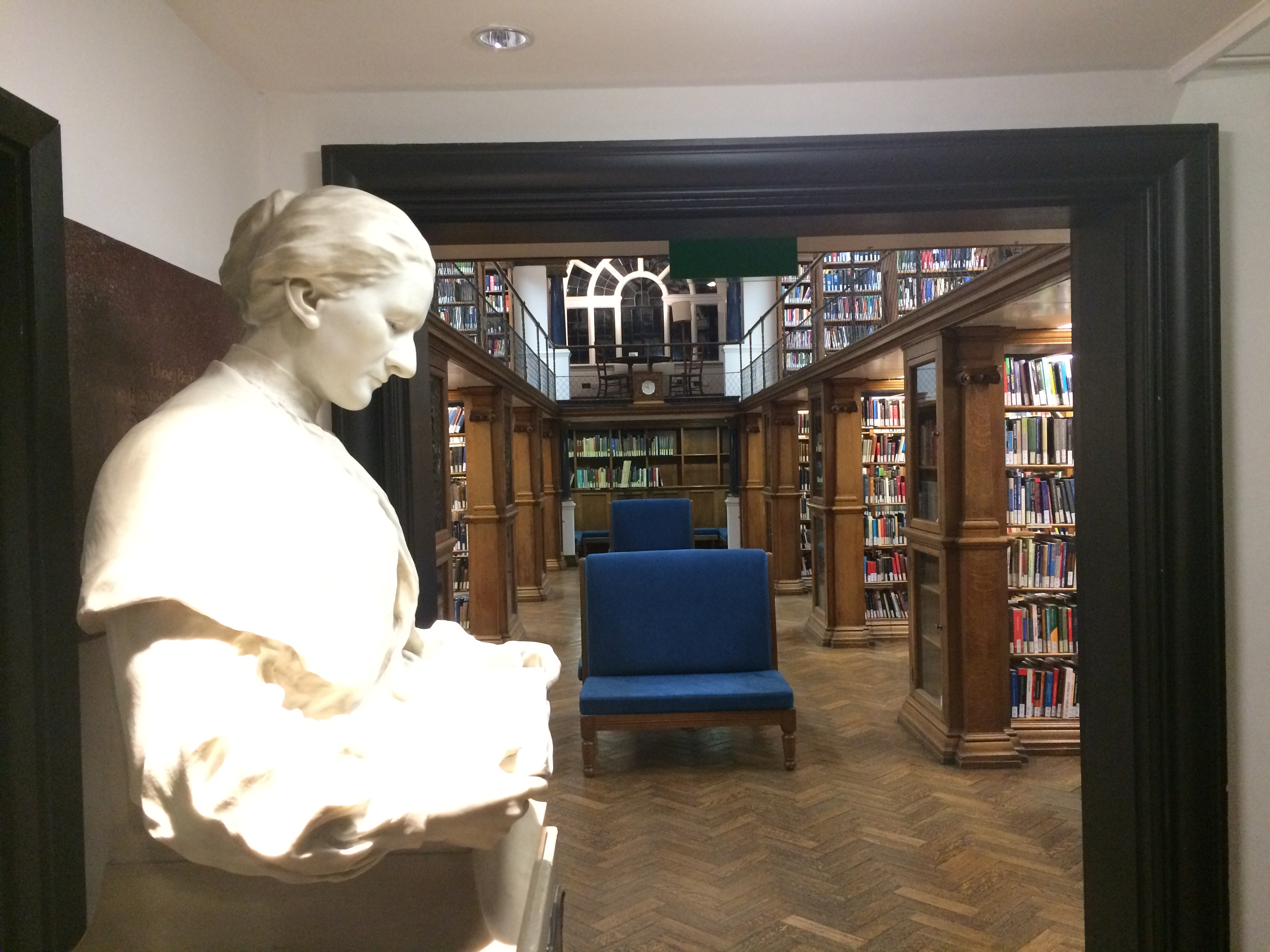 Image takenfollowing the Role Models meetup/editathon at Newnham College, Cambridge, focusing on university students who became notable. Event held to coincide with International Women's Day.#WikiWomenInRed